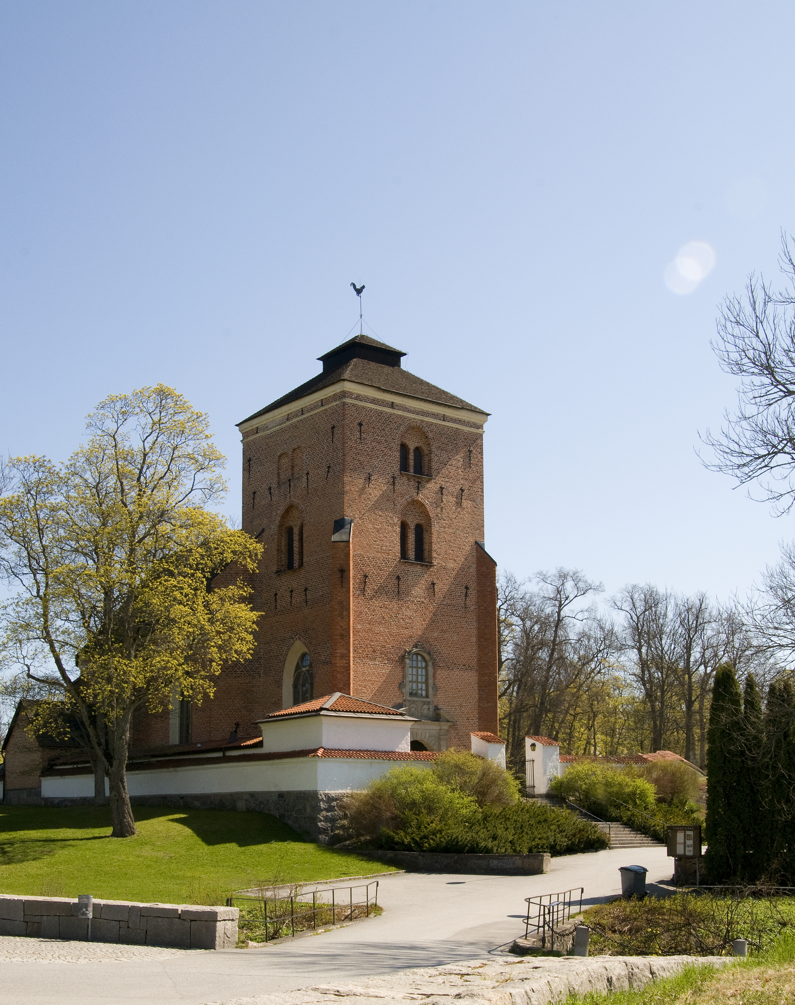 Tyresö church, Tyresö municipality, Sweden